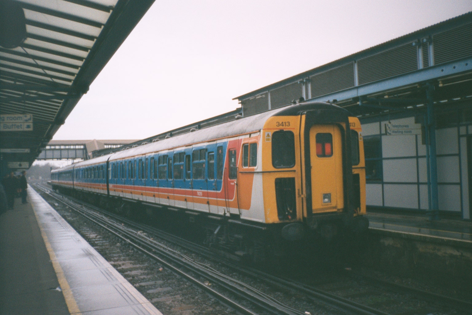 An ex-Southern Region EMU operated by South West Trains at Guilford station in 2000.